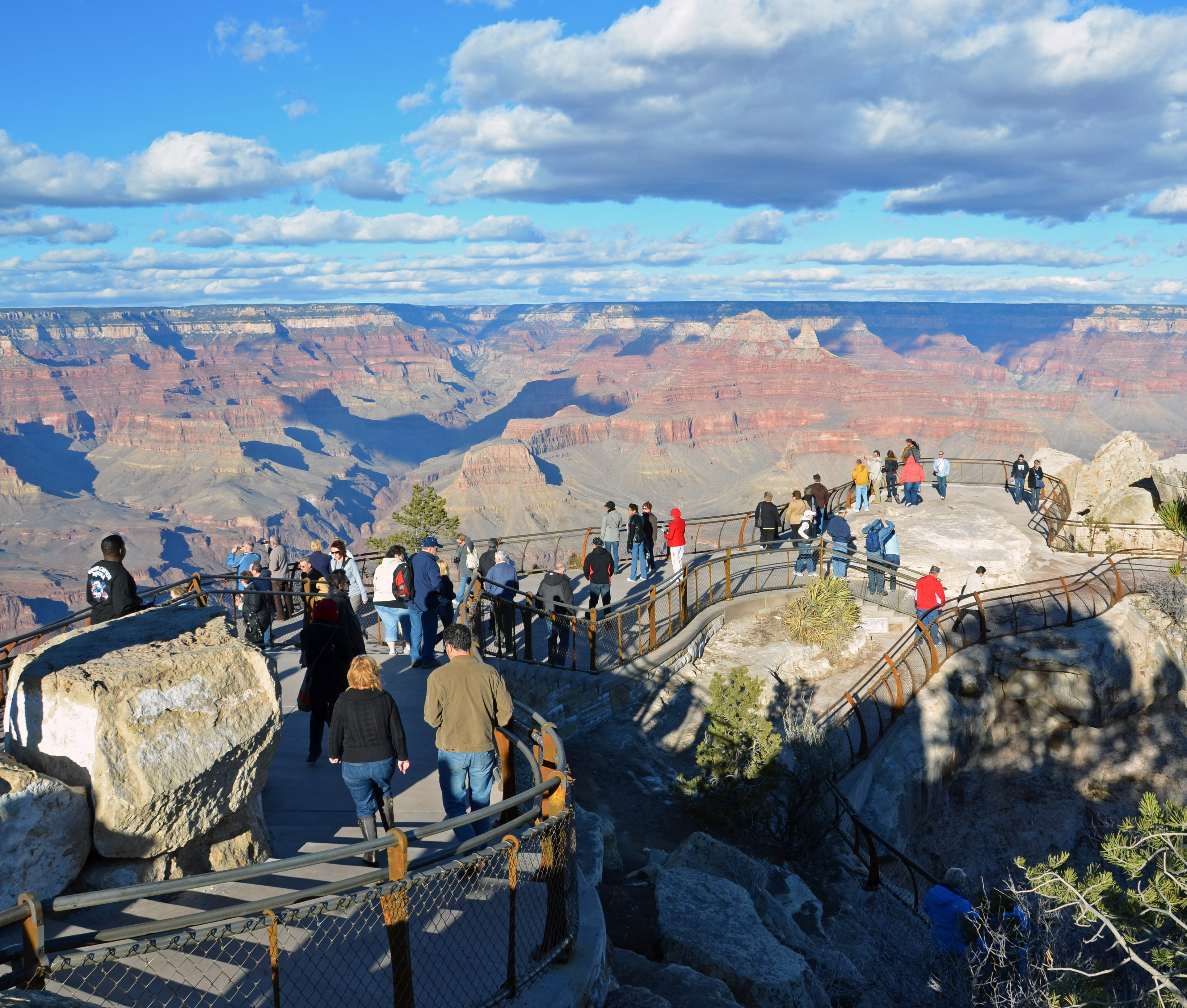 Grand Canyon Mather Point